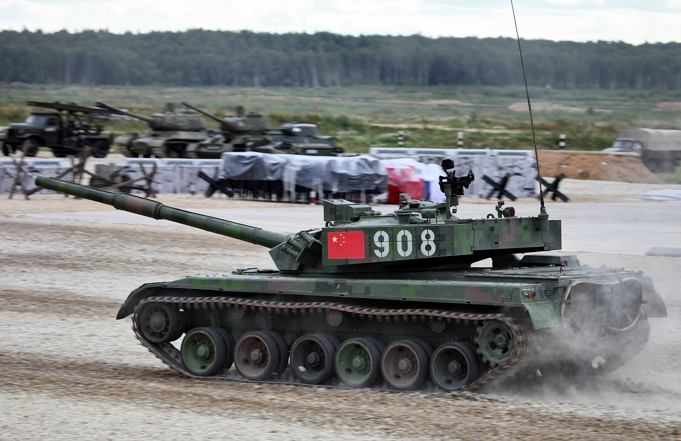 Type 96A1